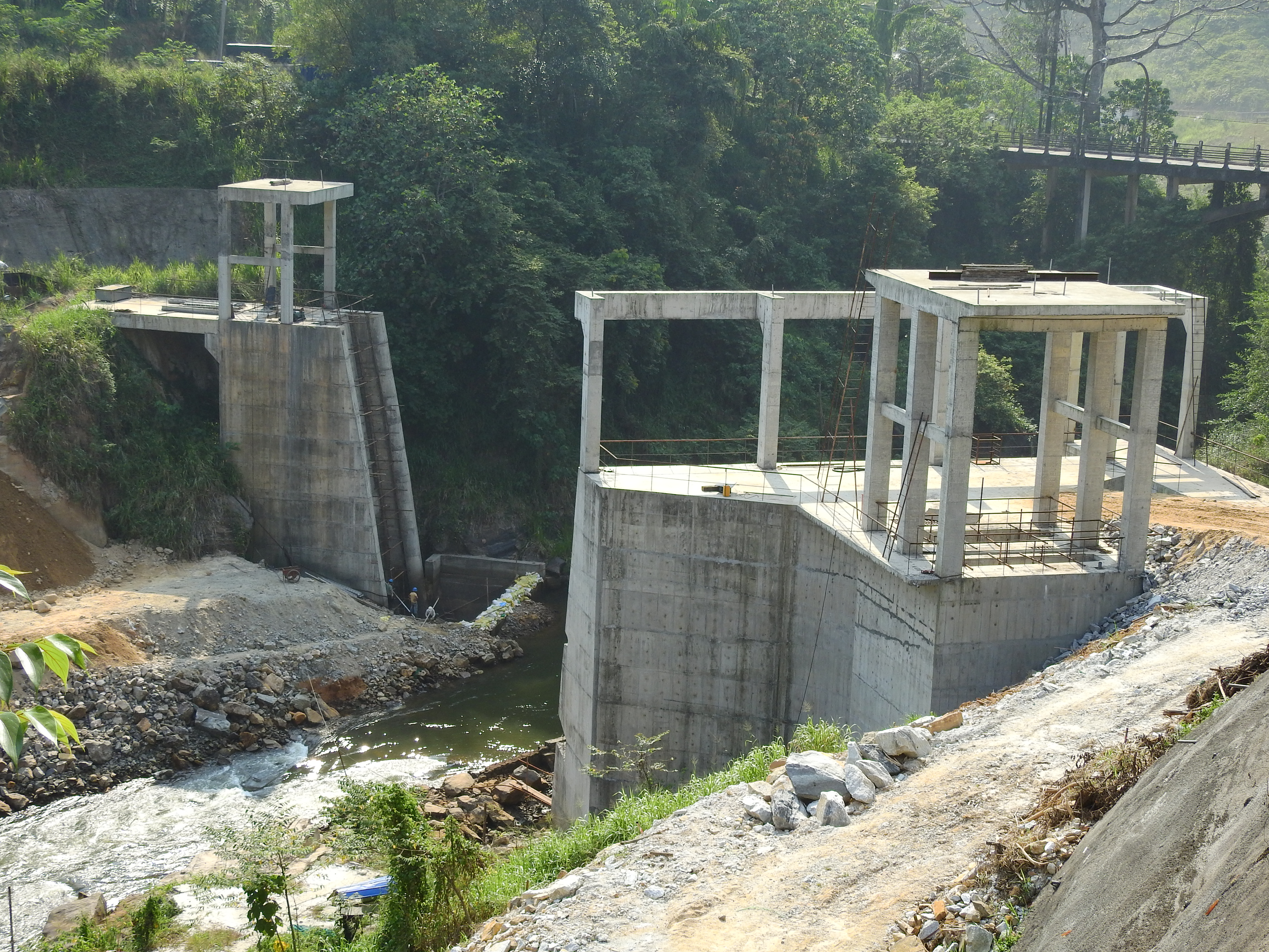 This photo was taken as part of a photo project by Wikimedia Community User Group Sri Lanka, covering current/future hydroelectric dams (and its surroundings) in the Central and Sabaragamuwa provinces of Sri Lanka. User:Rehman handled the photography, while User:Azeez and User:PasinduBR handled the logistics/planning of routes. Description of photo: Broadlands Dam under construction. Further information on the subject(s) of the photograph may be found in the category/ies of this file.